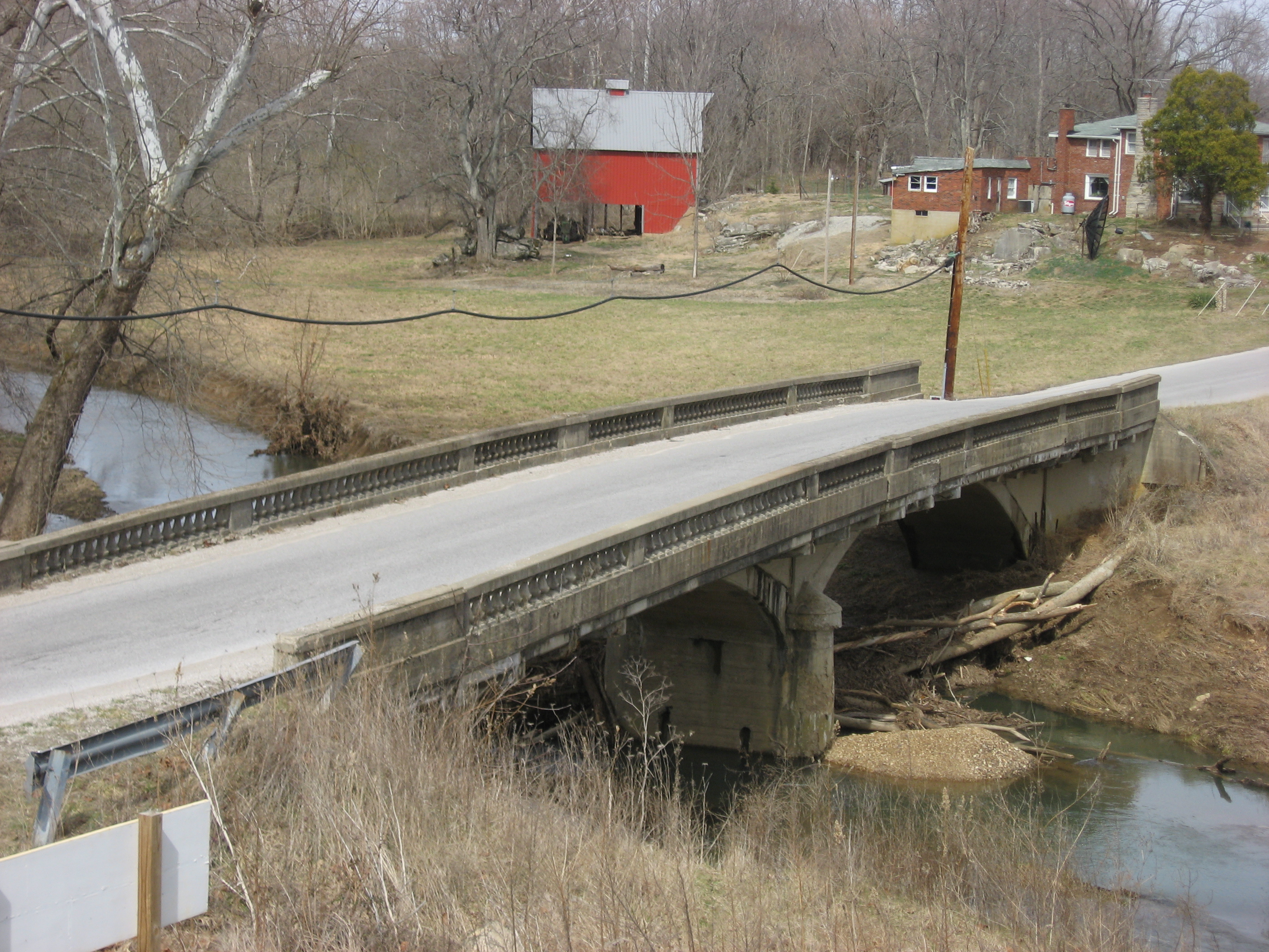 Eastern side of the Beck's Mill Bridge, which carries Beck's Mill Road over Mill Creek southwest of Salem in Howard Township, Washington County, Indiana, United States. Built in 1922, it is listed on the National Register of Historic Places.